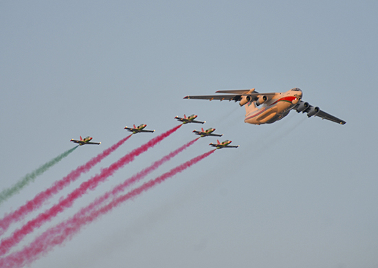 Командующий войсками ЗВО проверил готовность военнослужащих к параду в Минске, посвящённому Дню независимости Белоруссии